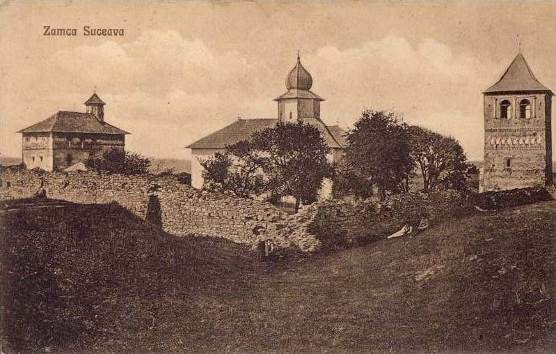 Zamca Monastery in Suceava in an old photo (1915).